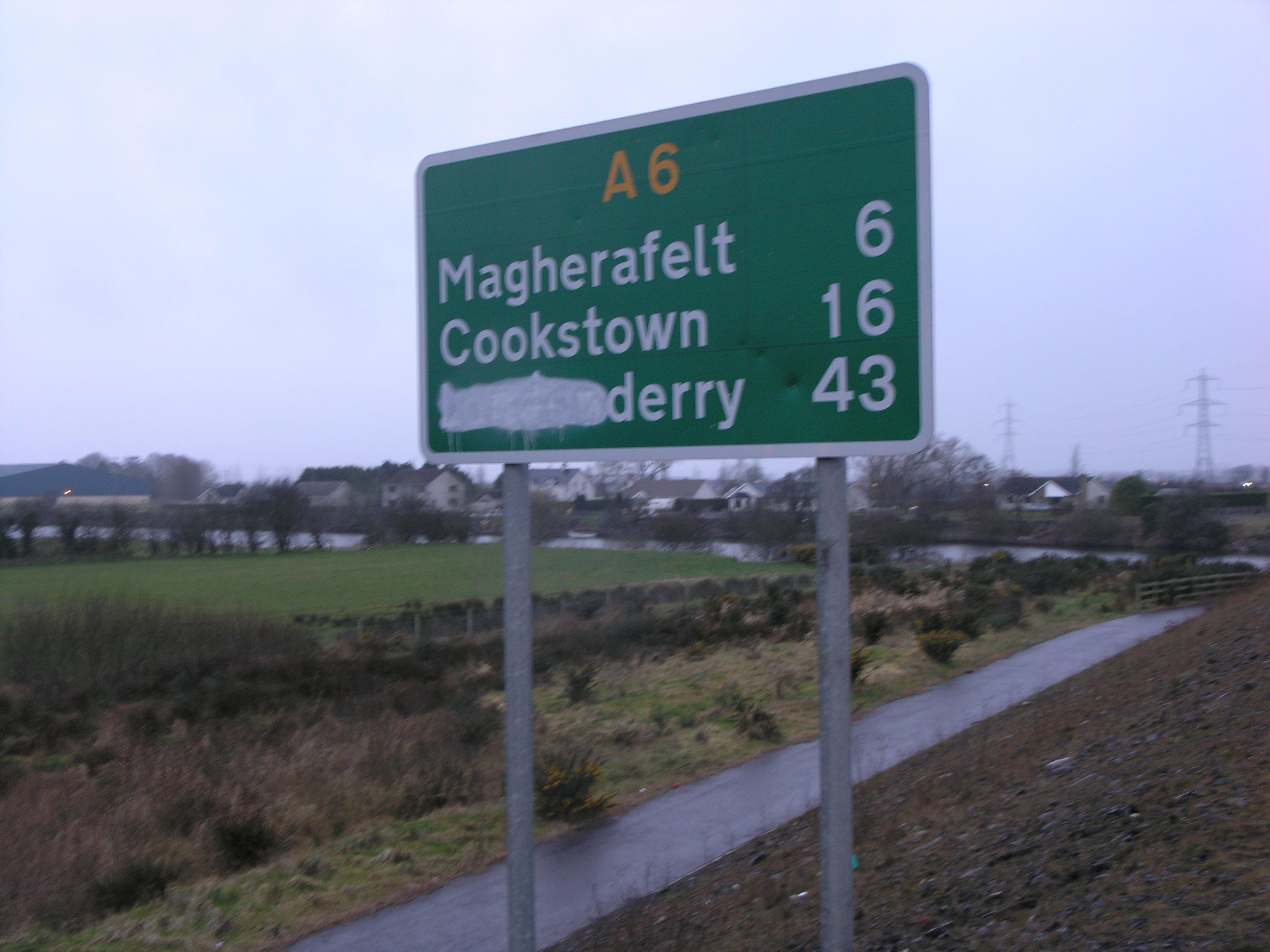 Photograph of a vandalised road-sign on the road to Derry